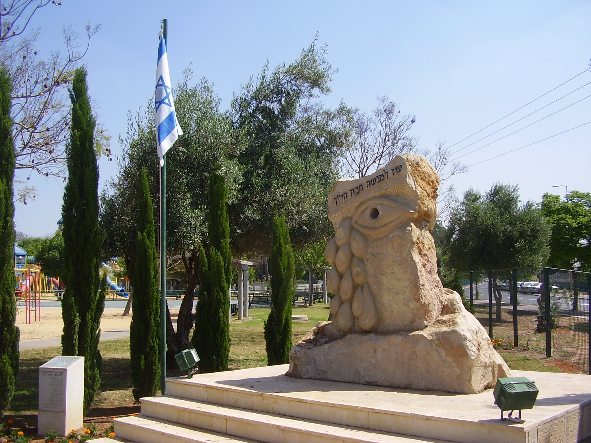 "Tears of Courage" Sculpture in Kfar-Saba, Israel